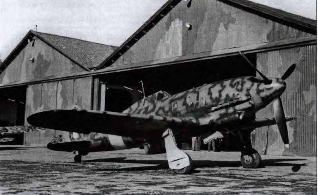 The second prototype of Macchi C.205 (M.M. 9488)